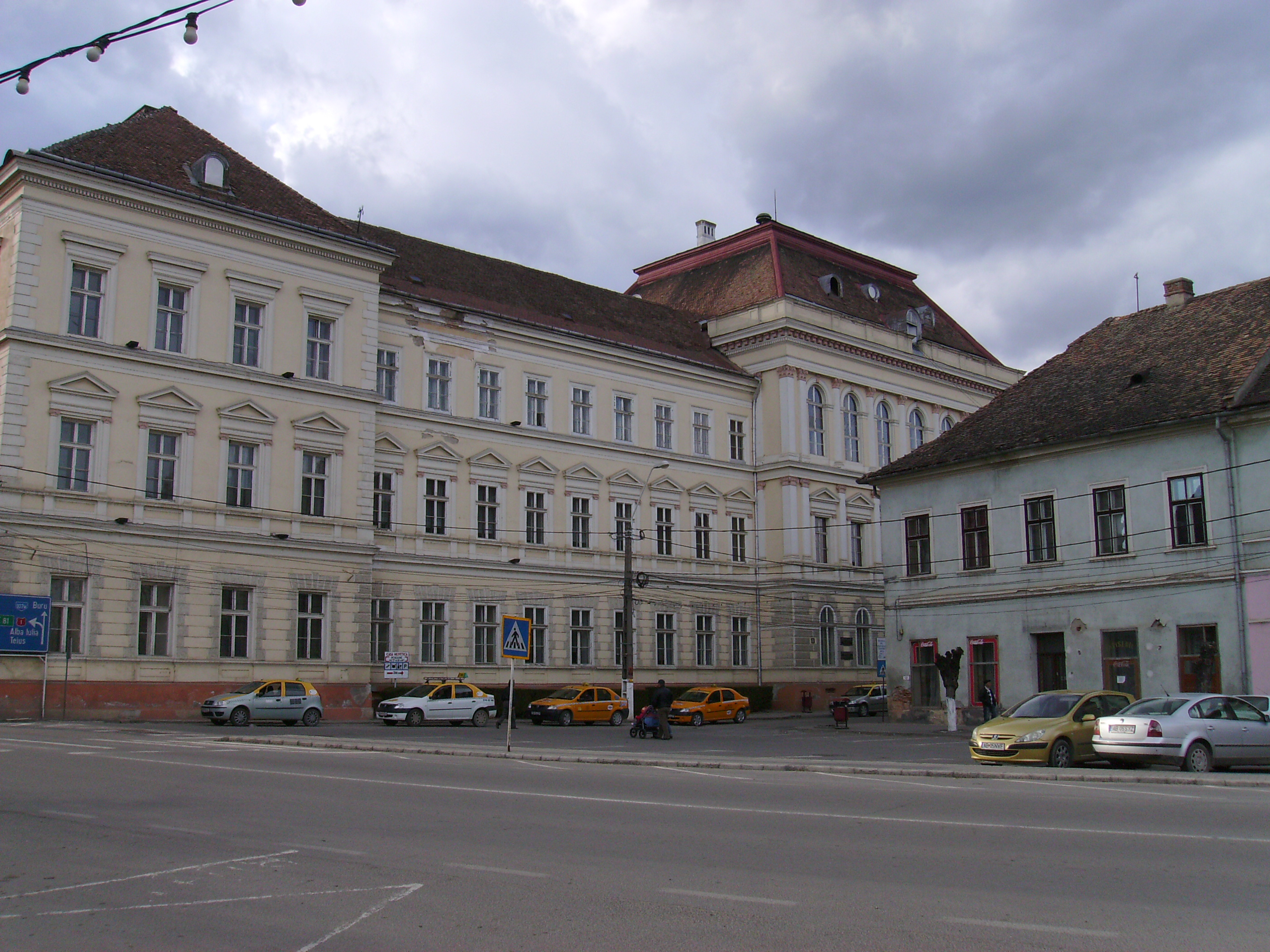 Bethlen college of Aiud was initially founded in 1622 by prince Gabriel Bethlen in Alba Iulia. In 1662, prince Michael I Apafi changed its location to Aiud where it has functionned uninterruptedly ever since.